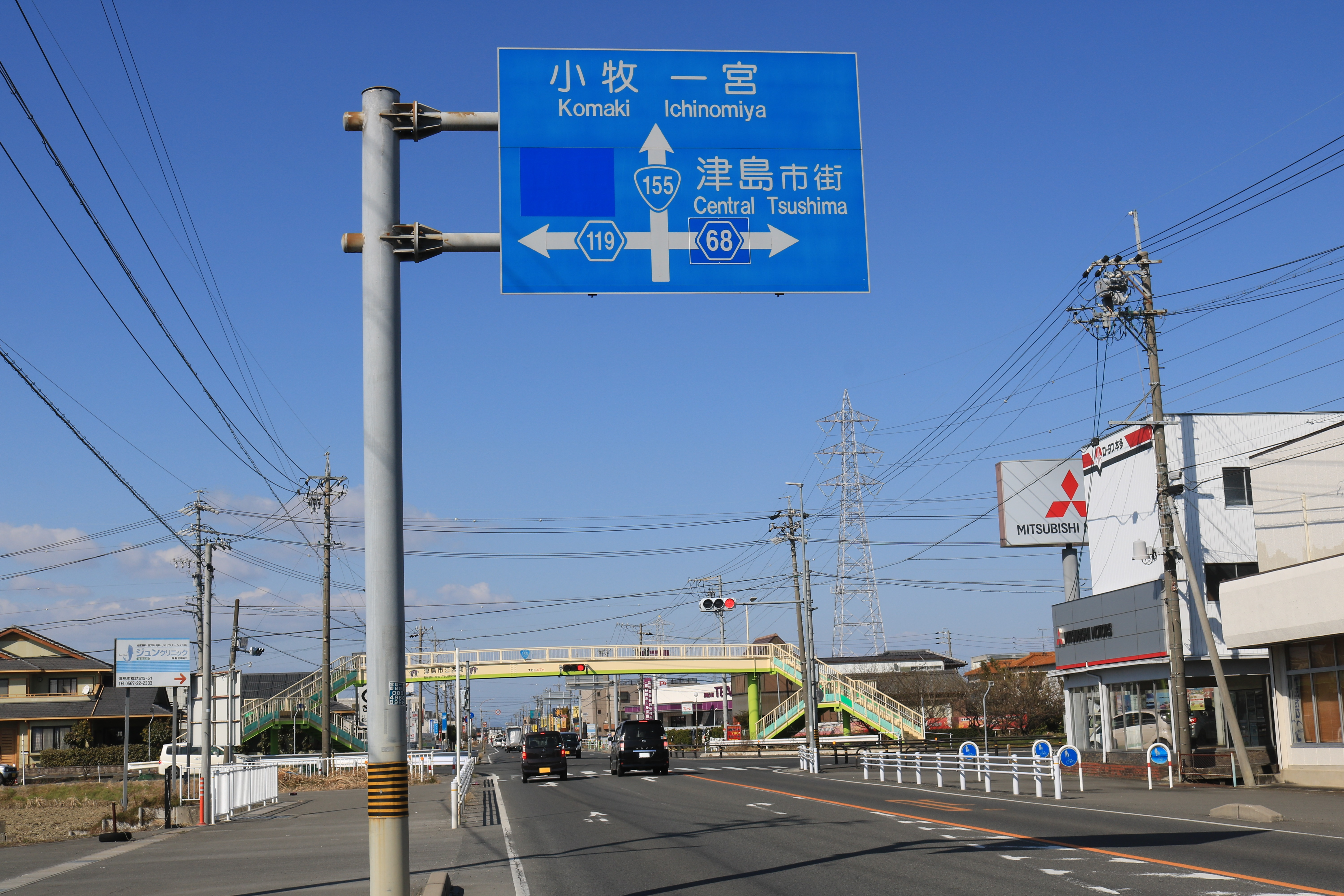 Route 155 in Enichicho, Tsushima, Aichi prefecture, Japan.